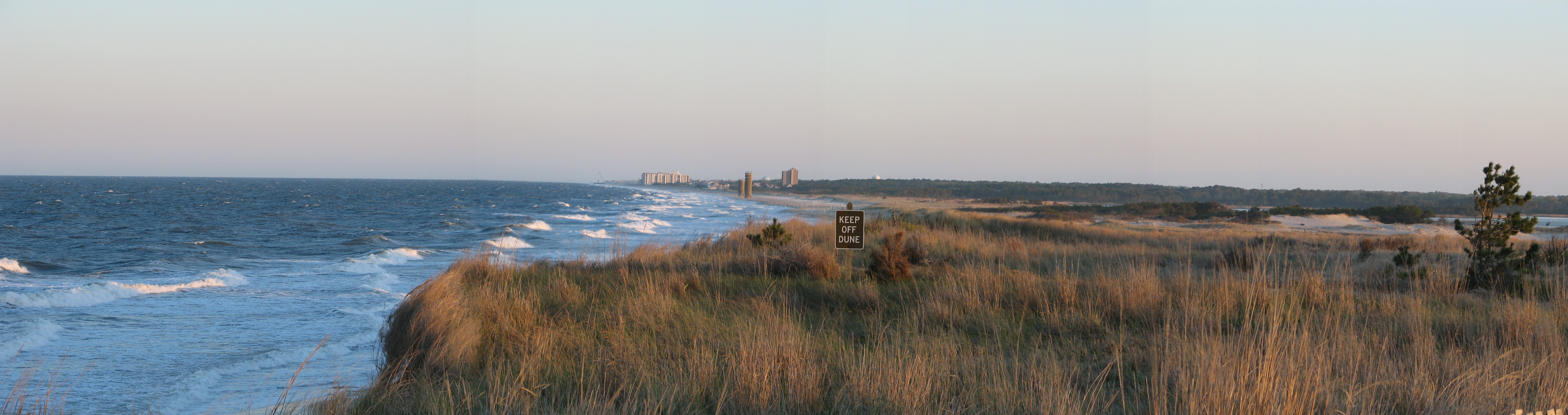 Cape Henlopen